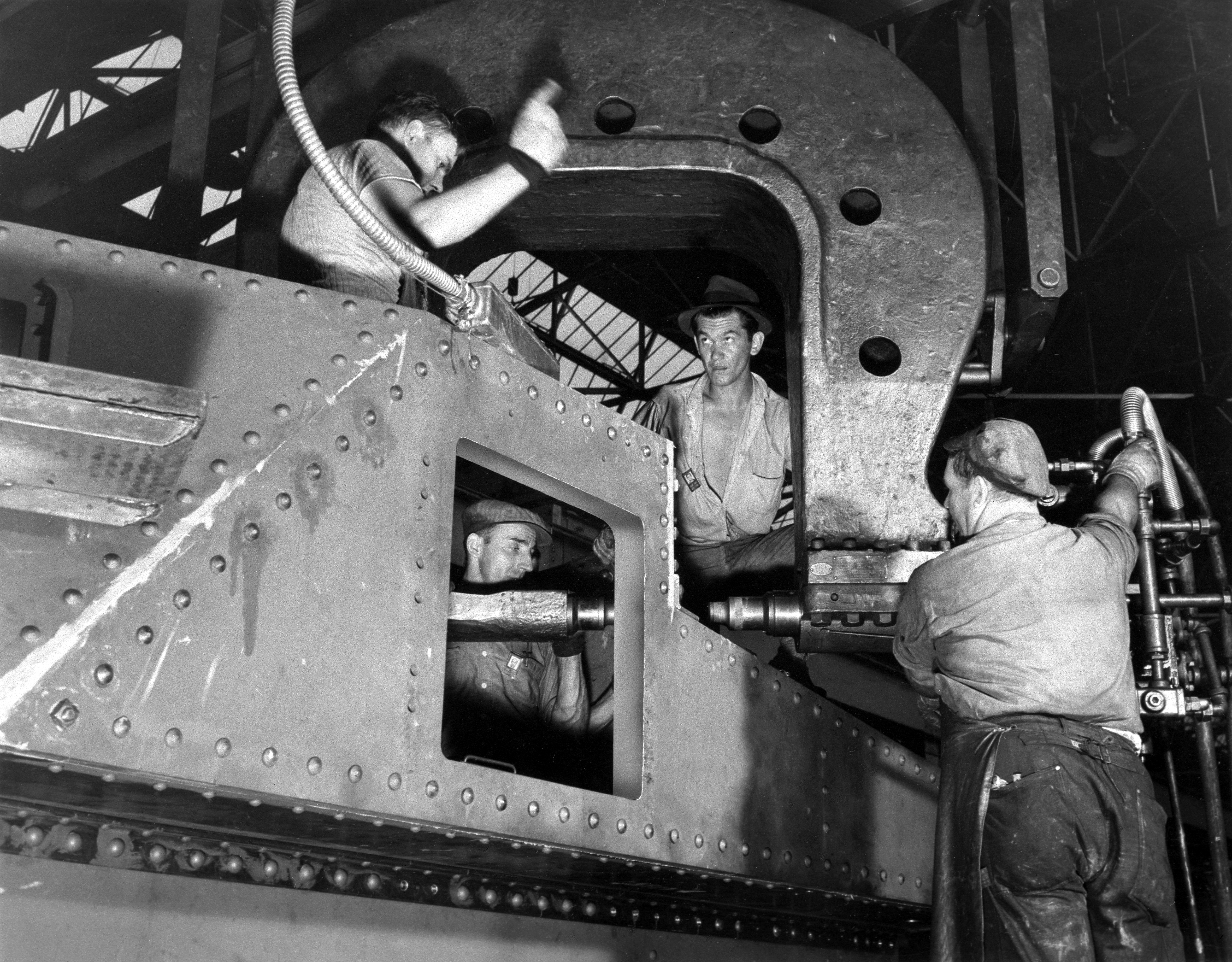 Thousands of rivets are used in the production of one of the huge thirty-eight ton M-3 tanks. Whenever possible rivets are replaced by welded sections, but throughout much of the tank, as in the side plates on which this riveter is working, the steel plate is too heavy for welding. The riveting itself, a twenty-five ton.